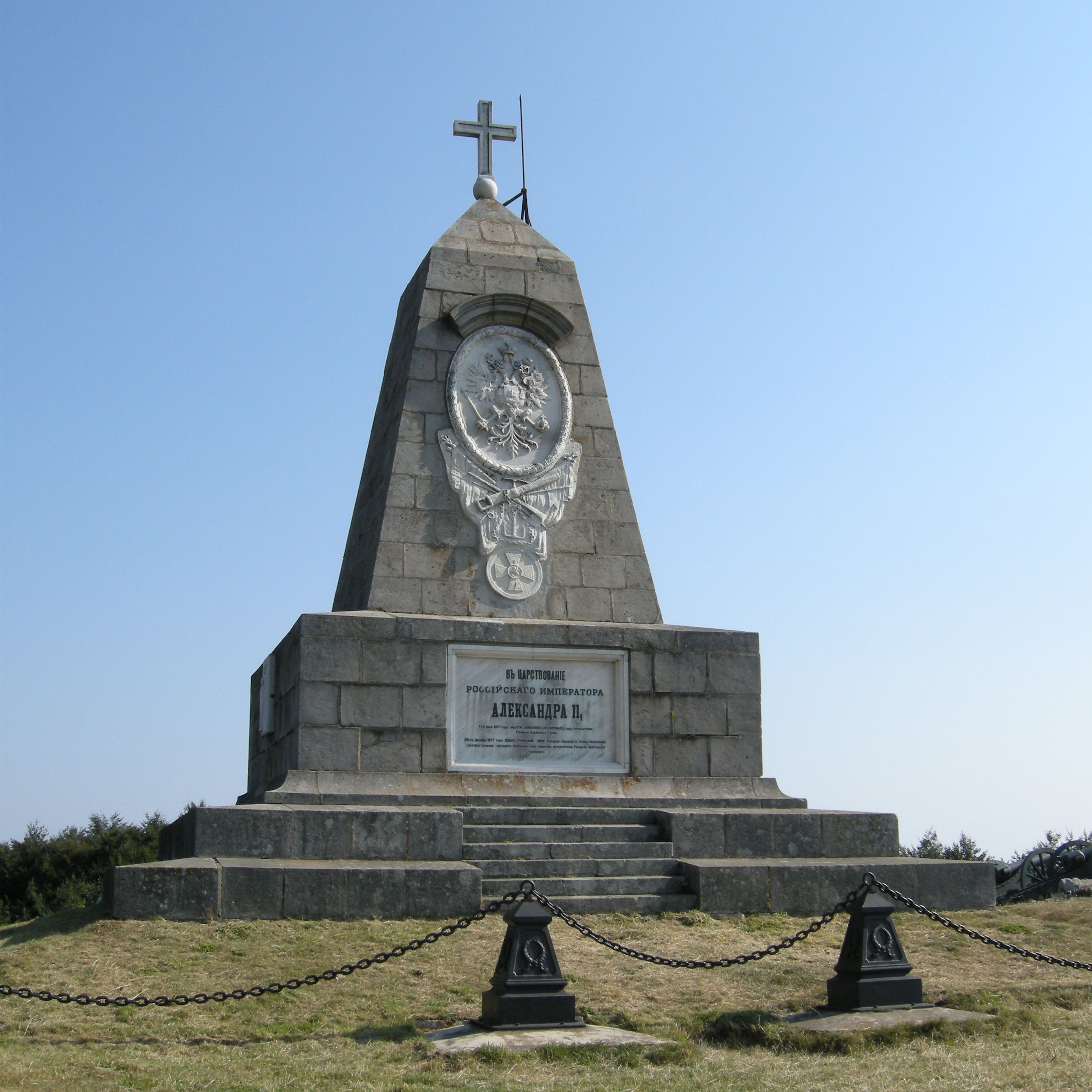 Monument of the Russian emperor Alexander II on Shipka peak in Bulgaria.